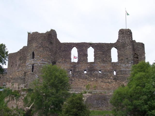 HaverfordwestCastle. Haverfordwest Castle was originally a Norman stone keep and bailey fortress, founded by Gilbert de Clare. Of the large outer ward only two turrets survive, the inner ward has a high curtain wall, four towers and two fine ranges of buildings.